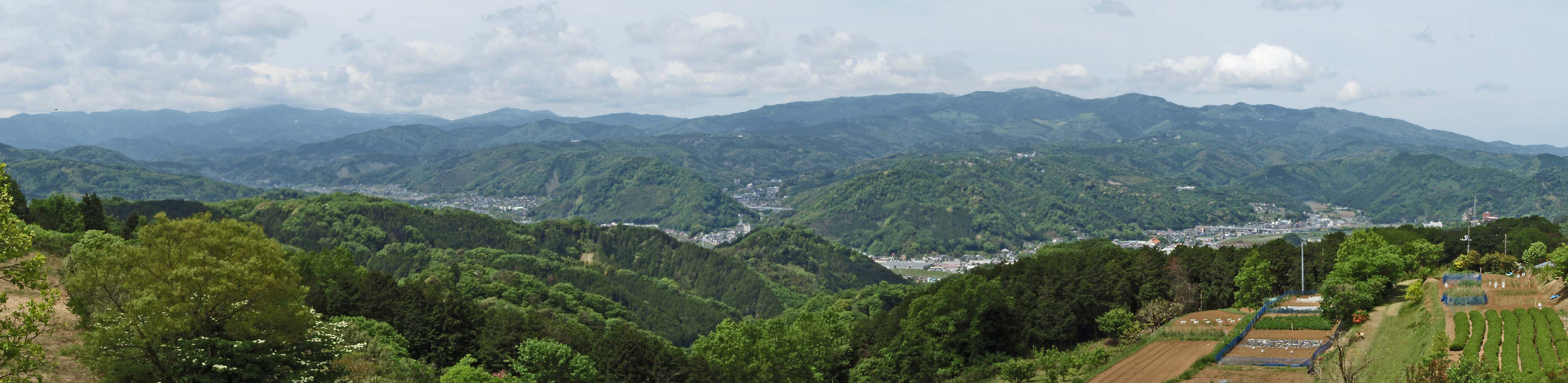 A panorama of the Izu City as seen from ENE in Shizuoka prefecture, Japan. Daruma volcano's massif in the right back.